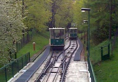 Petřín funicular – both cars passing each other on the Abt passing loop near Nebozízek central station